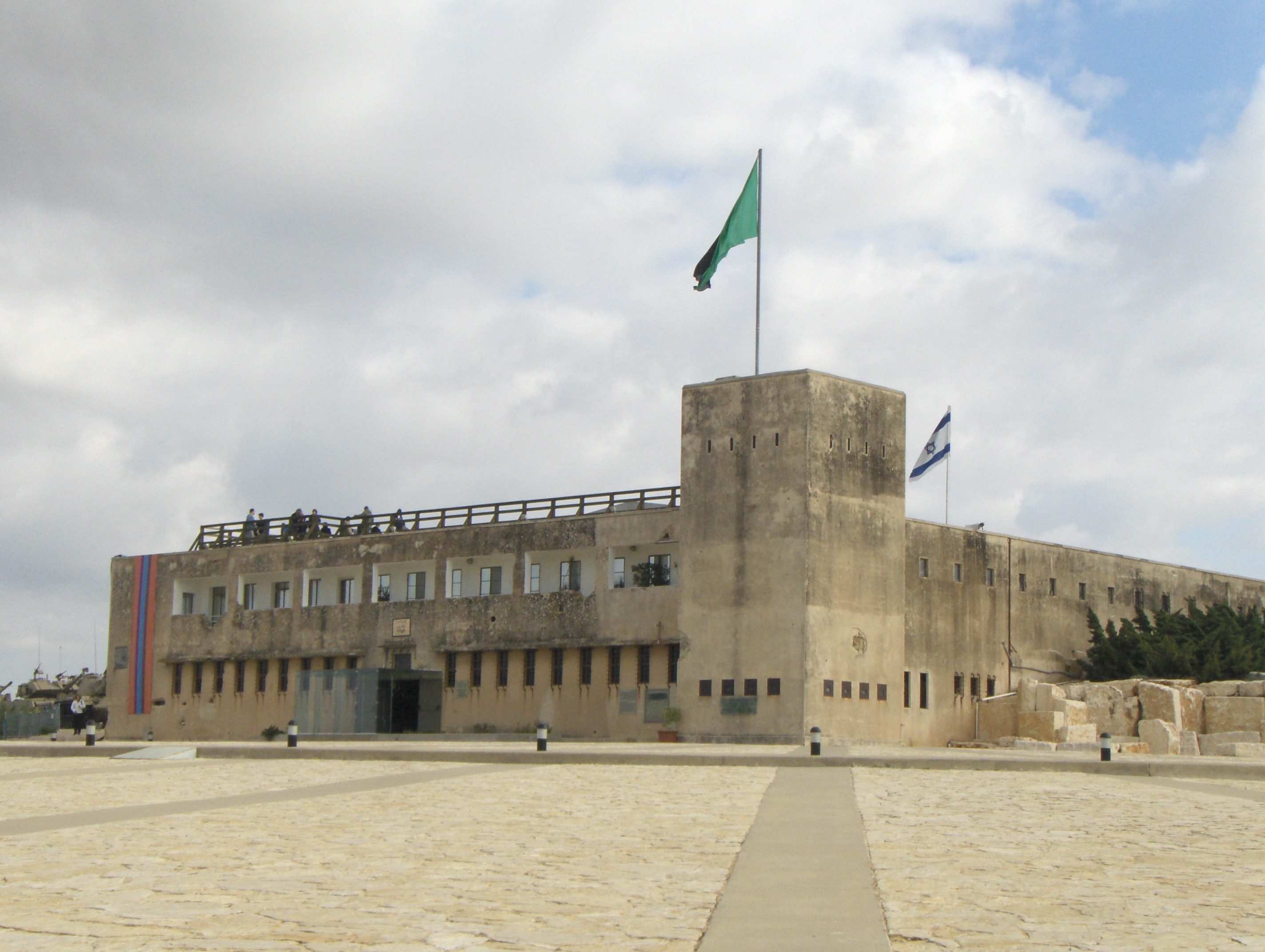 Israel